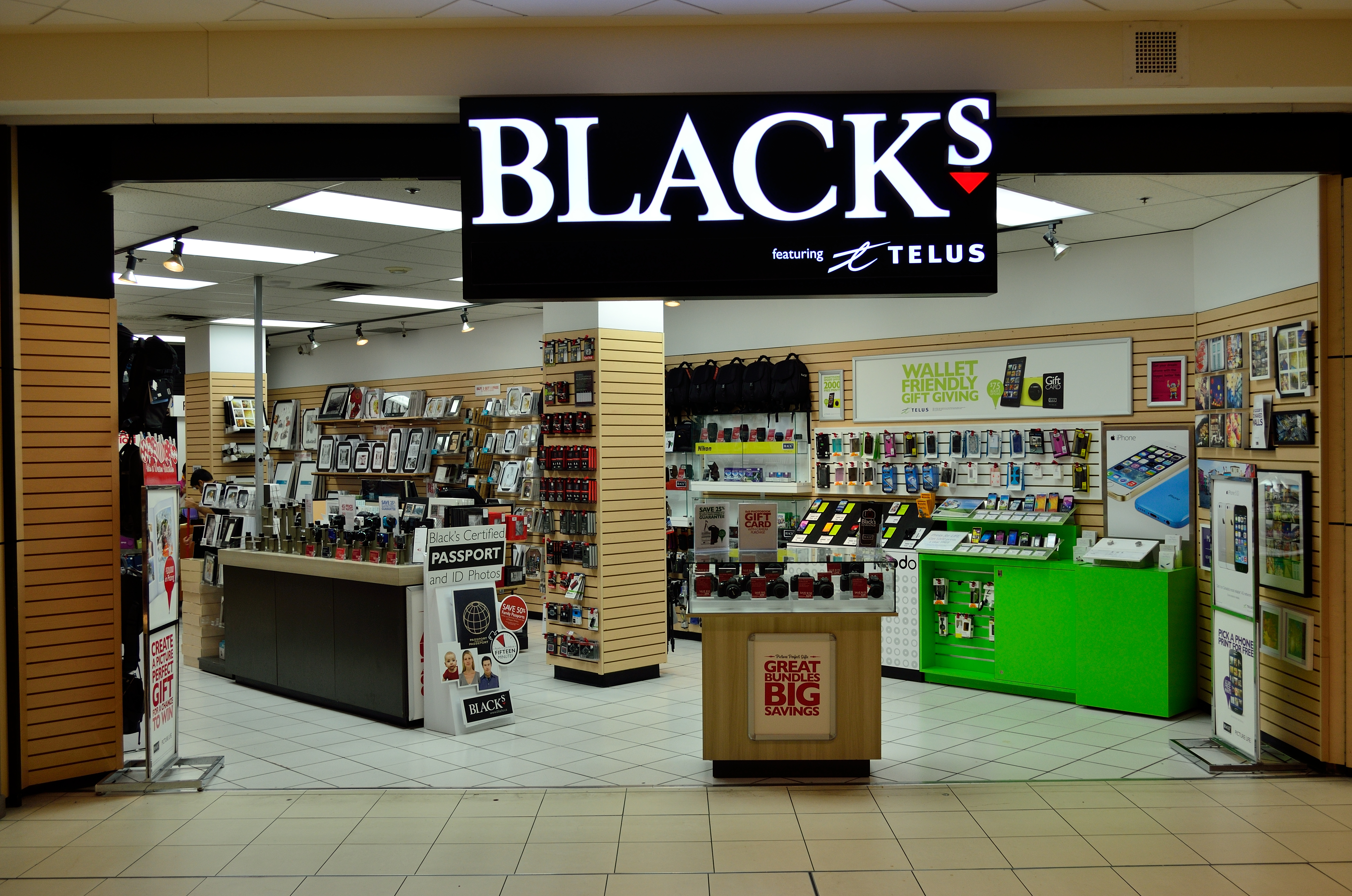 Blacks at Promenade. (Adjusted white balance & other minor tunings from RAW - original direct jpg from camera: File:BlacksPromenade.JPG).